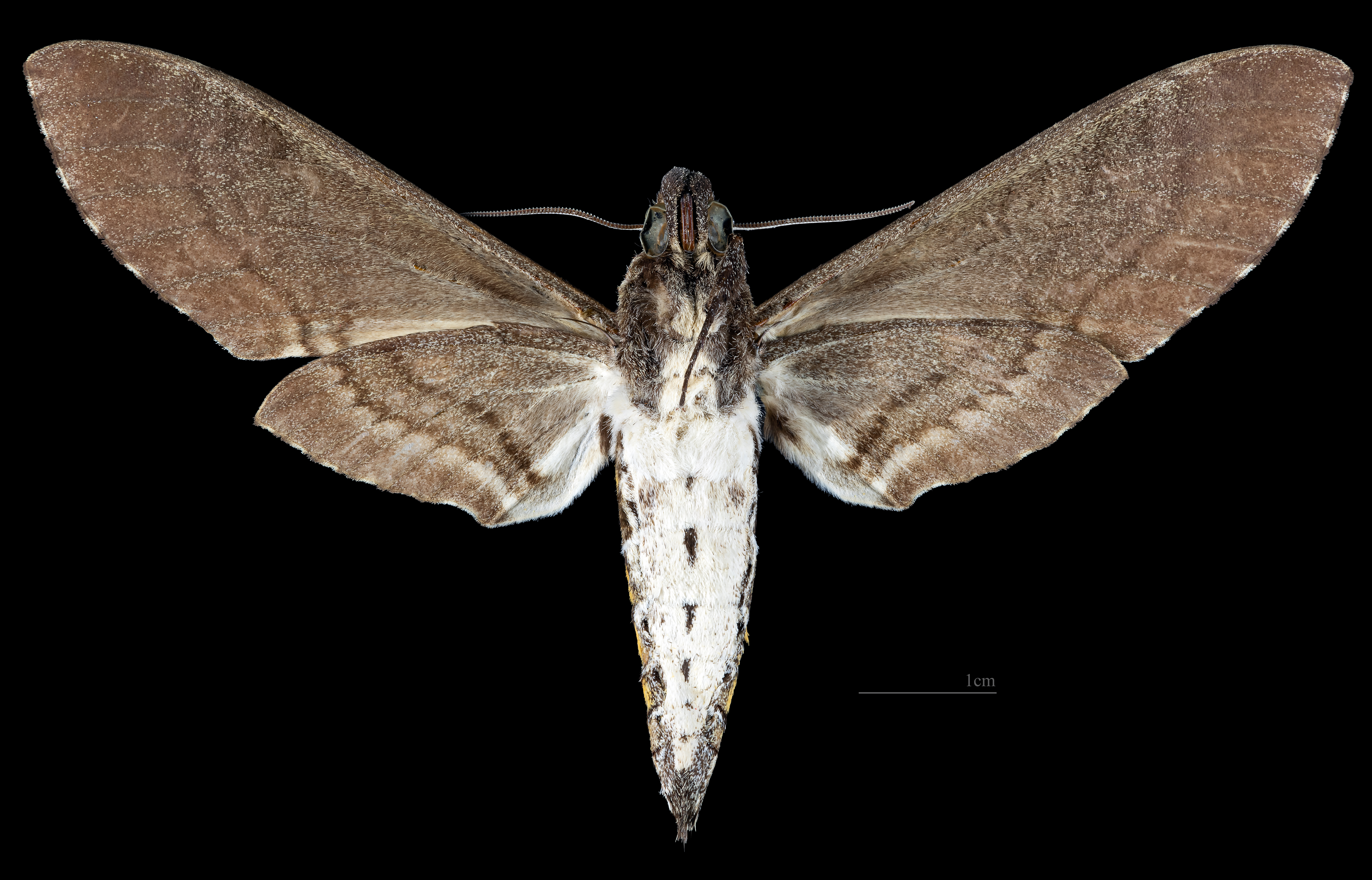 Manduca reducta - △ Ventral side Collection of the Mathematician Laurent Schwartz